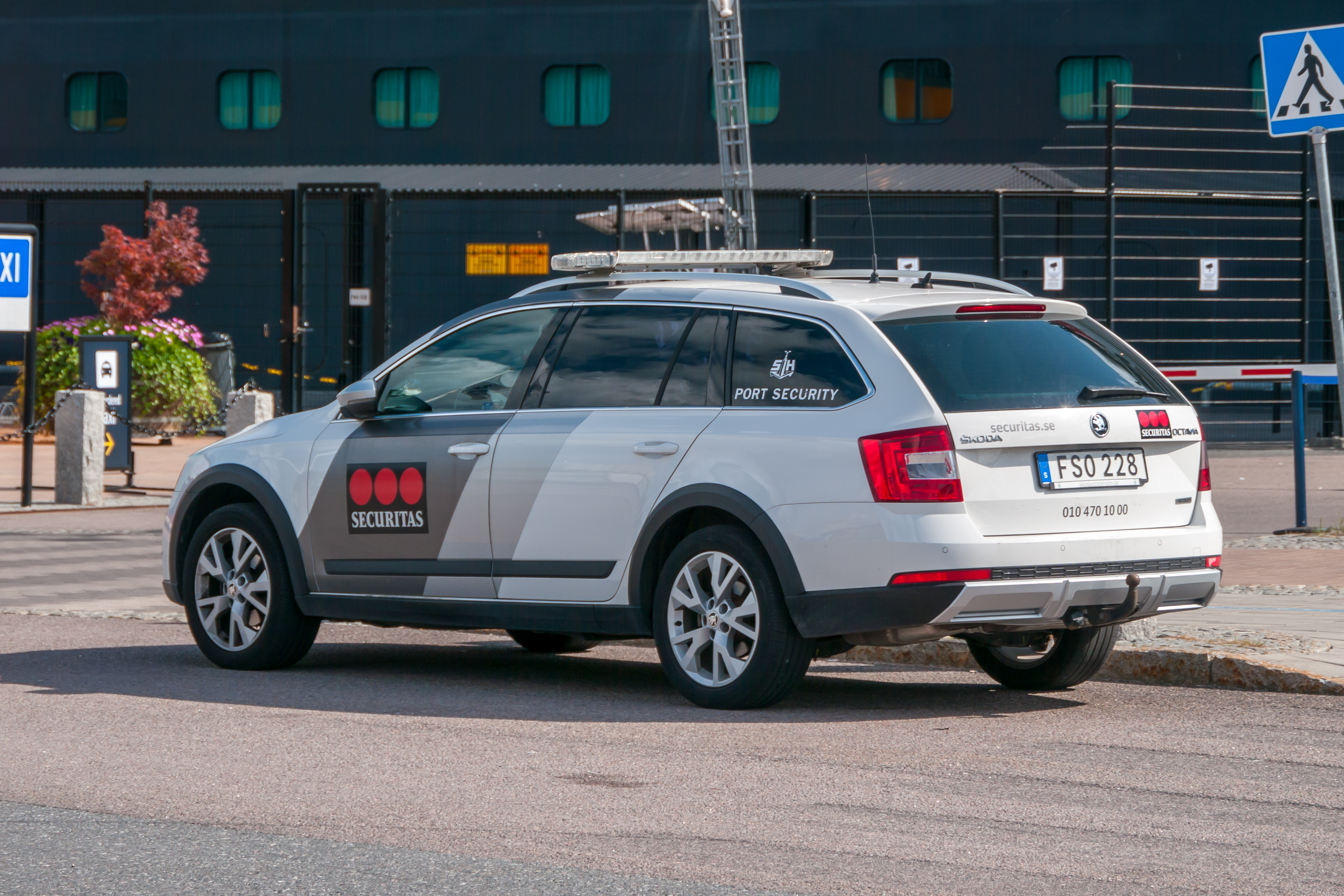 2015 Škoda Octavia Scout in Stockholms frihamn